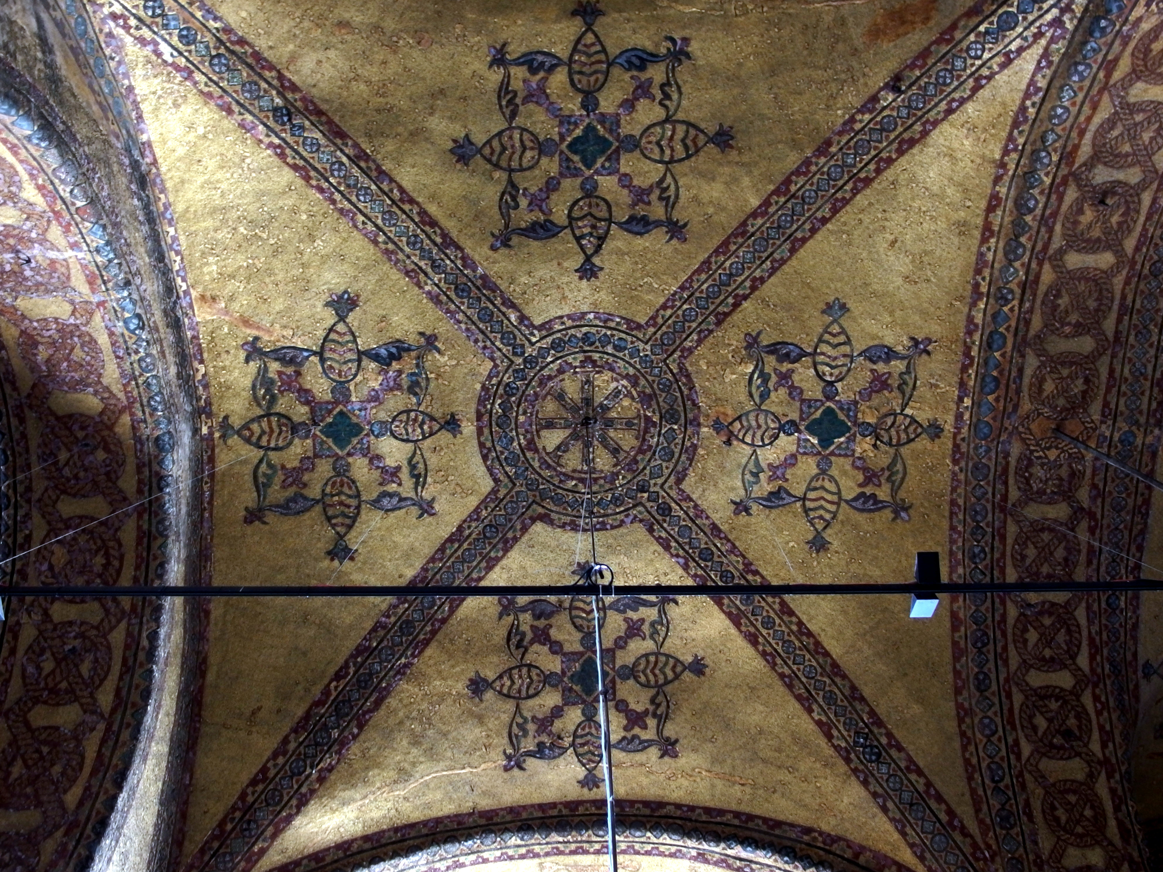 2013-12-03 in Istanbul.